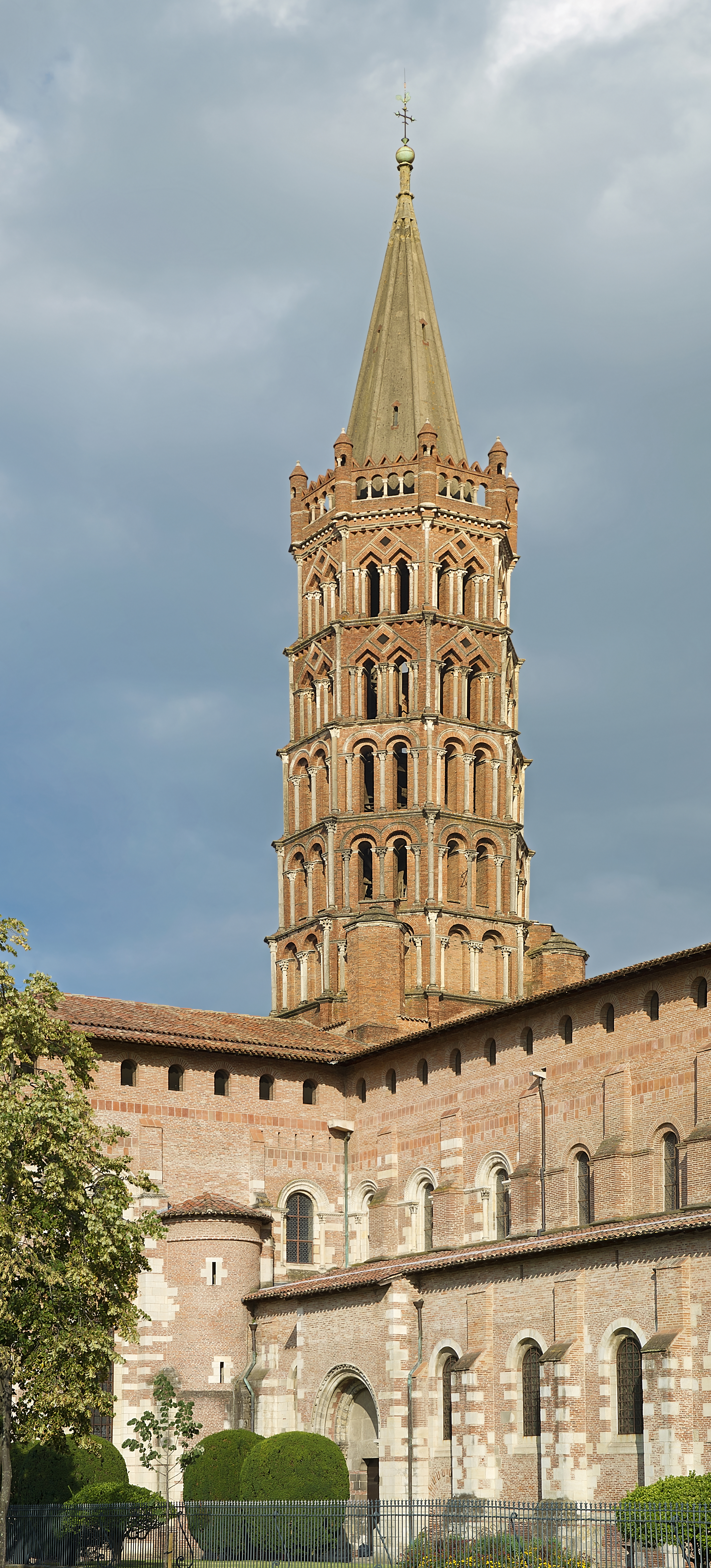 Basilica of St. Sernin, Toulouse, the nave, south transept, the bell tower (The lower part Romanesque and Gothic upper part).